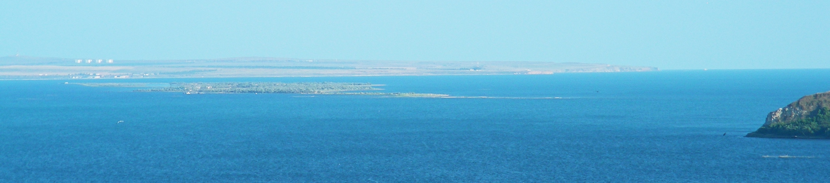 Strait of Kerch. View from Mount Mithridat (Kerch, Uraine). Right - Cape Aq Burun, center - Tuzla island.